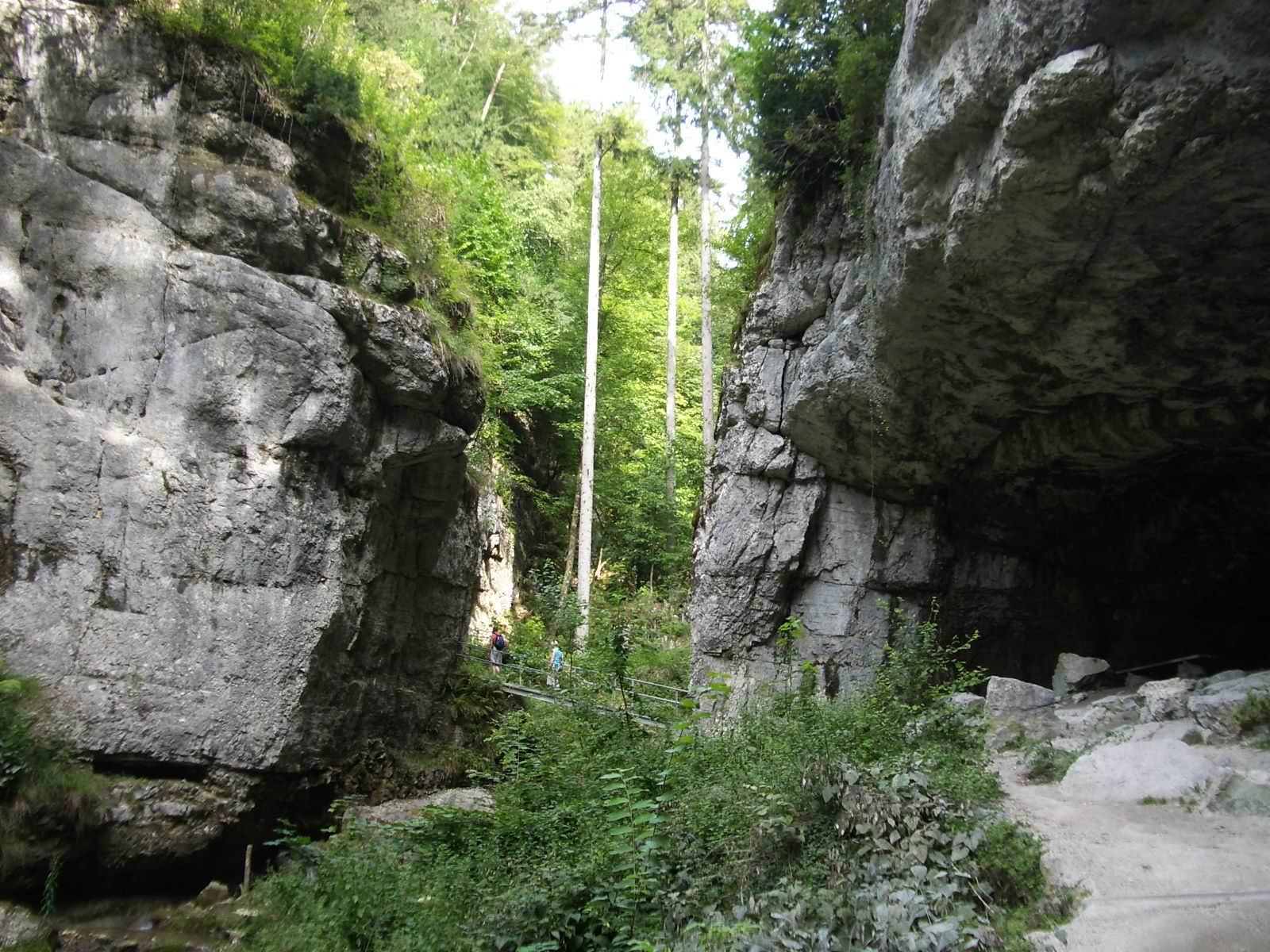 Hägendorf SO, Switzerland